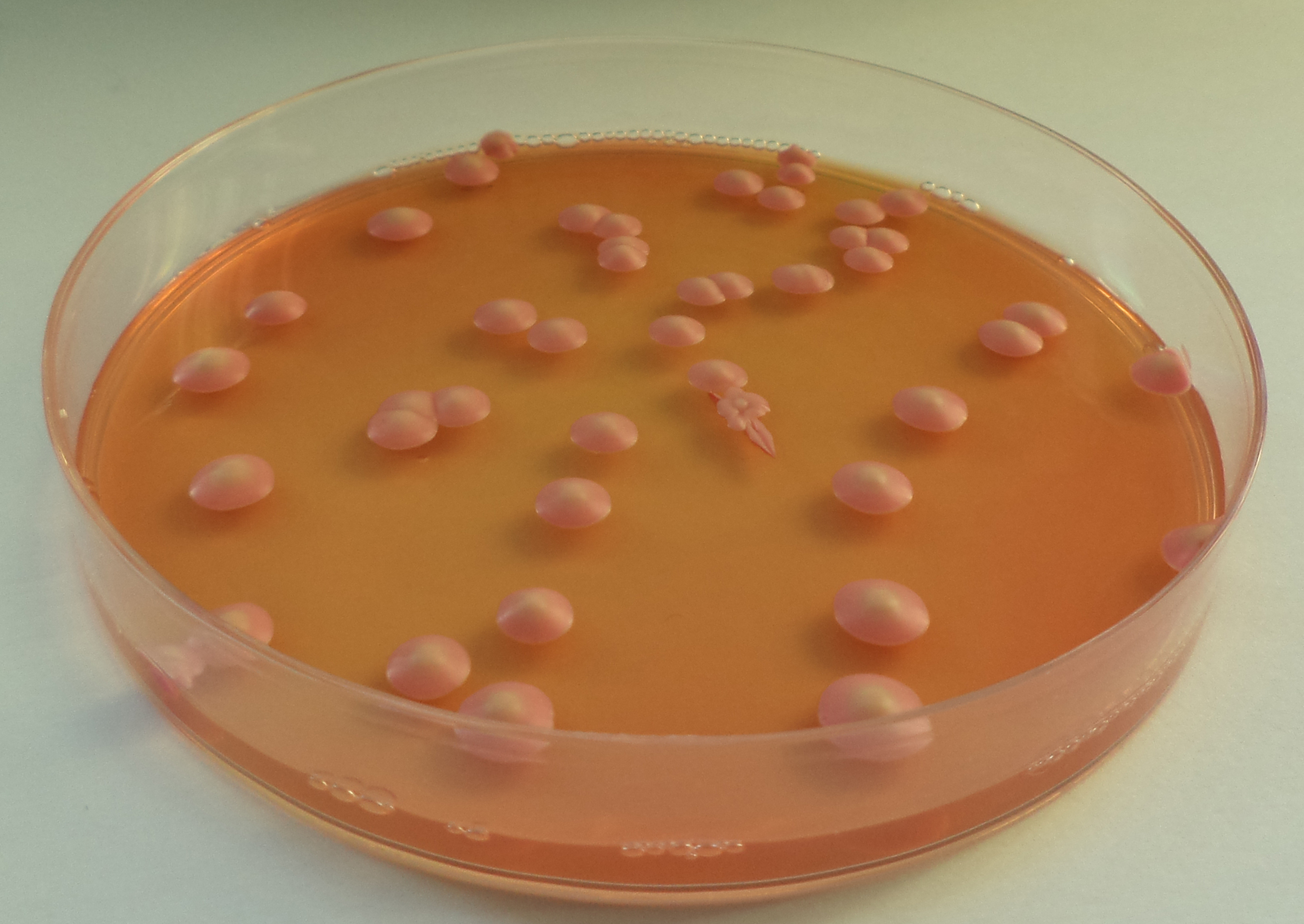 Colonies of yeast Brettanomyces bruxellensis on agar plates containing phloxine B.